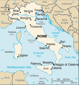 Map of Italy showing 150,000+ people cities